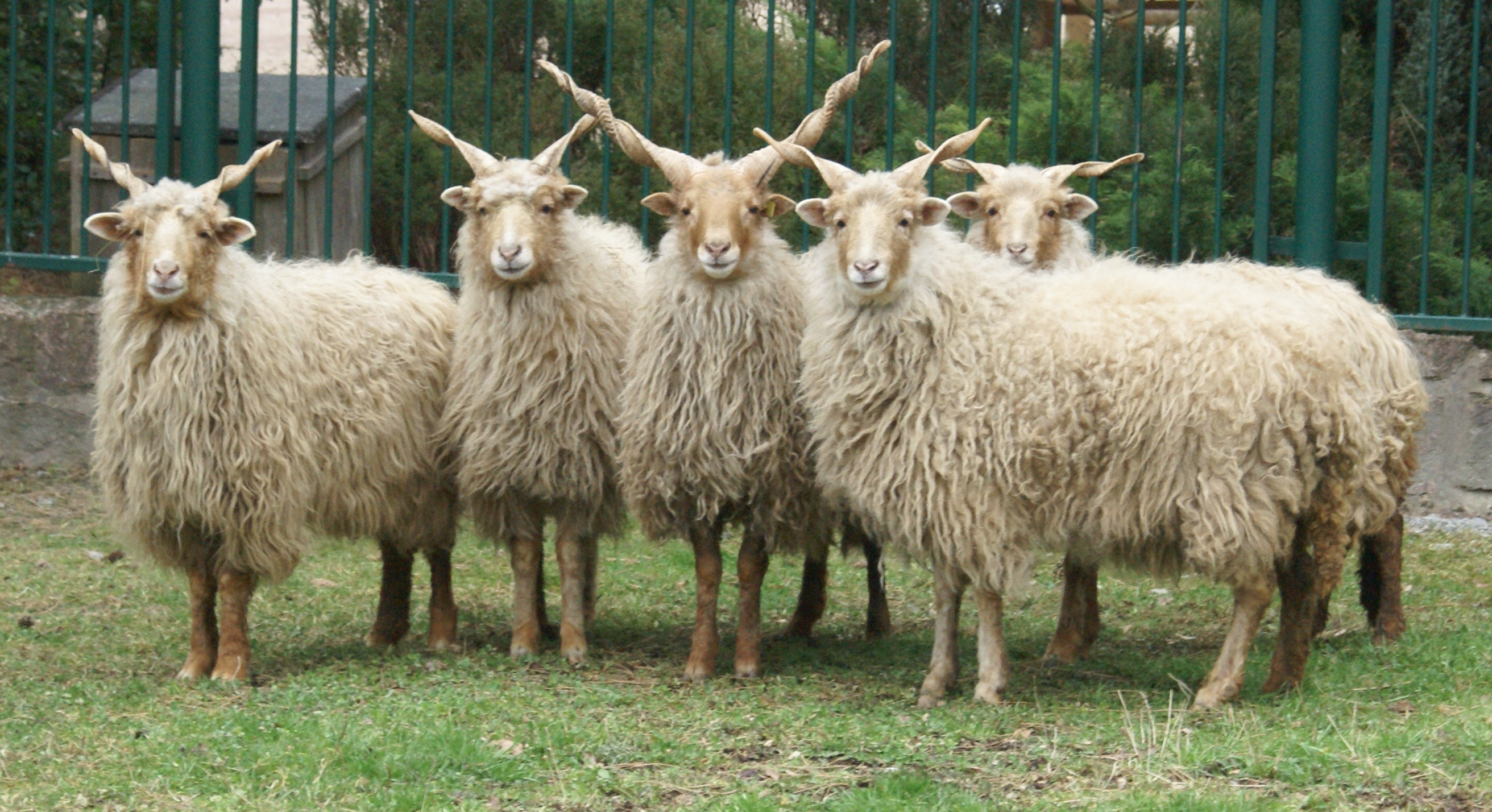 Zackel (racka) sheep, white, at Tiergarten Bernburg, Germany